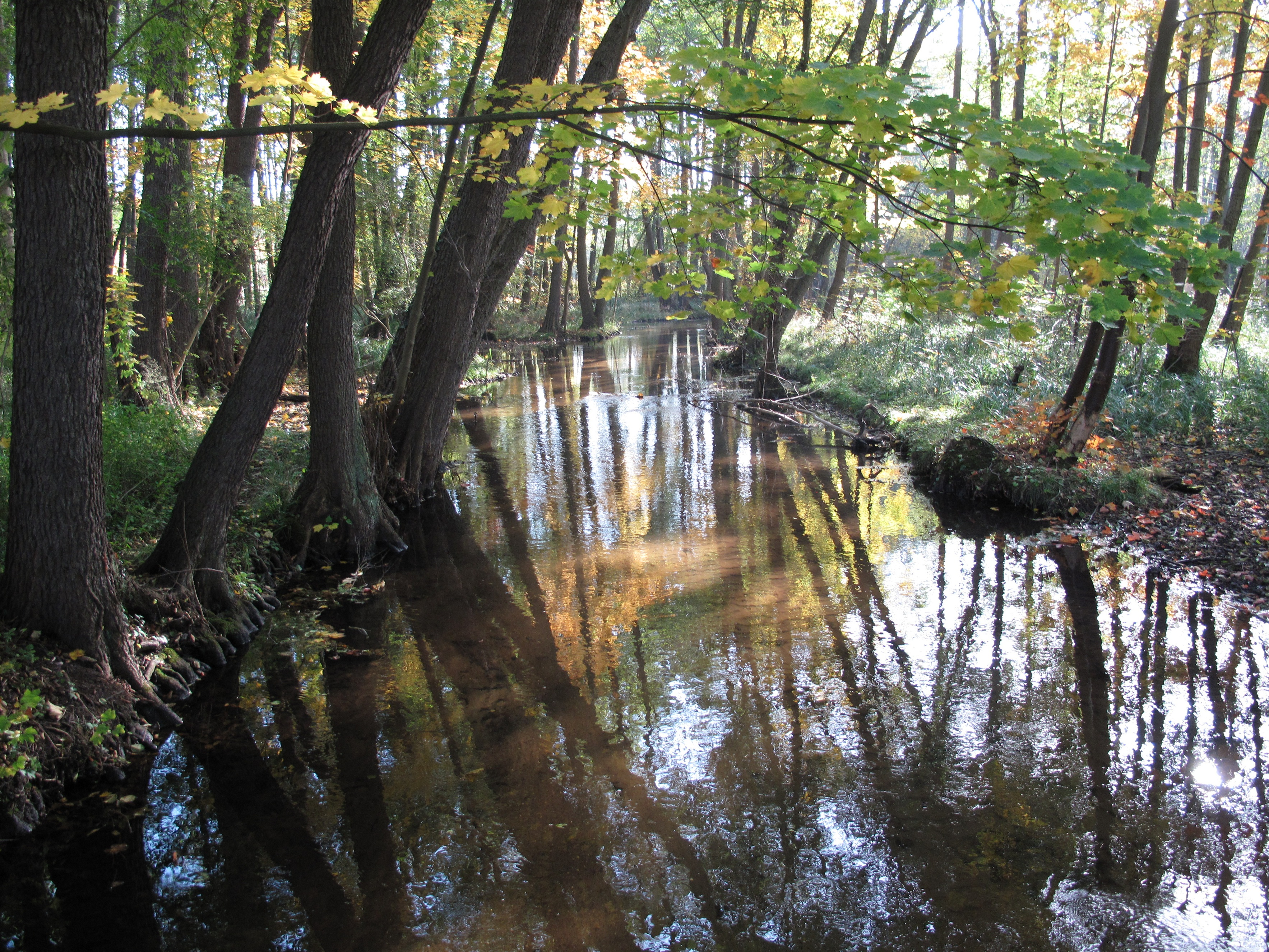 River Stobber in a alder carr just before the mouth of the Buckowsee. The Buckowsee is a lake in Buckow, District Märkisch-Oderland, Brandenburg, Germany. The lake covers 14 hectare and has a depth of max. twelve meters. It is crossed by the river Stobber. In the west border the Kurpark Buckow (german for: Spa Park) and the Lunapark to the lake. The lake is situated in the hill country „Märkische Schweiz“ and in the Märkische Schweiz Nature Park. The Stobber runs over a distance of 25 kilometers from the lowland moor and source area Rotes Luch towards the northeast through Buckow to the Oderbruch.